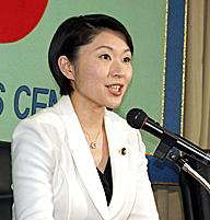 Yuko Obuchi